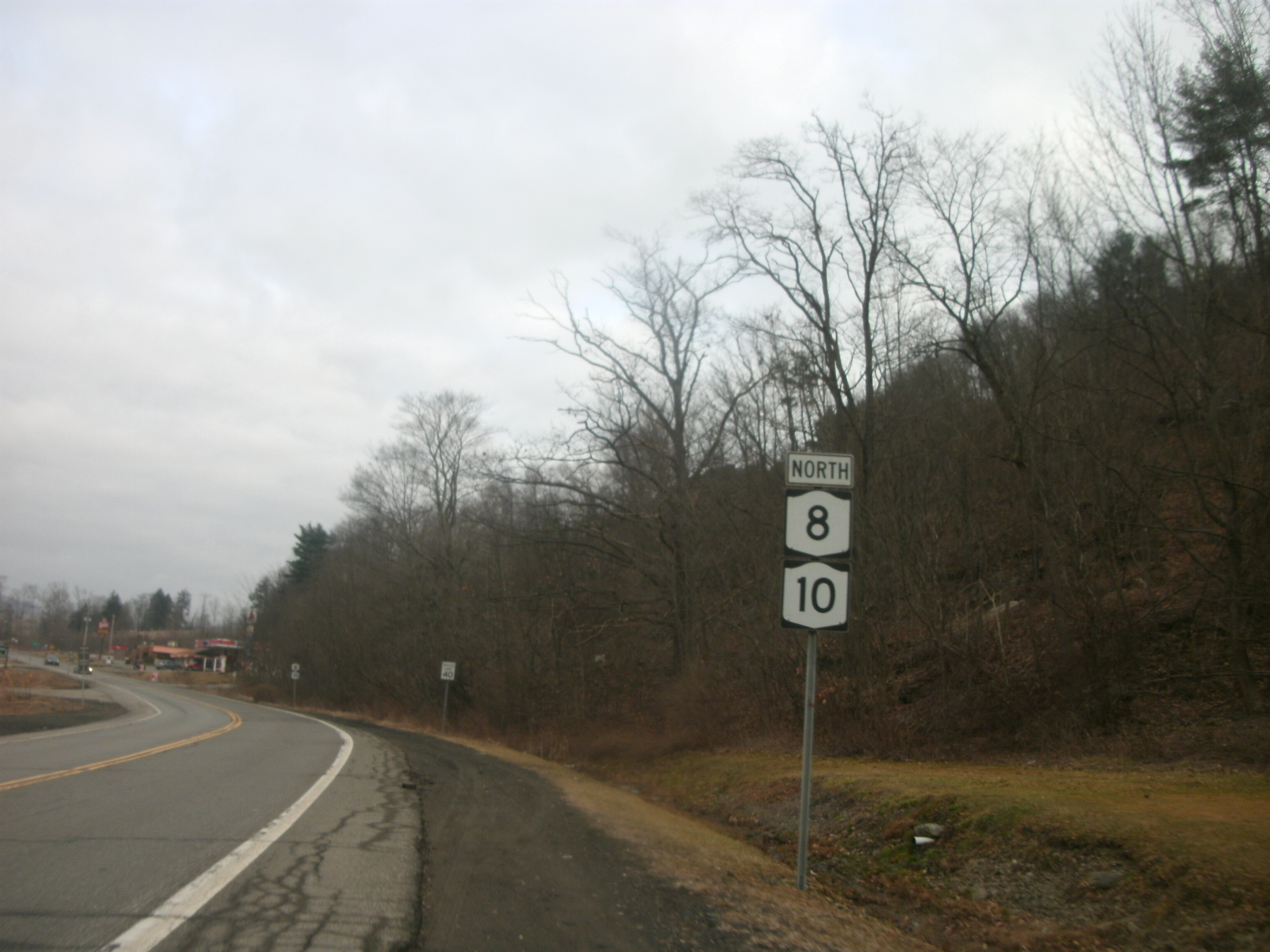 NY 8 and NY 10 heading northbound in Deposit, New York after the interchange with NY 17.